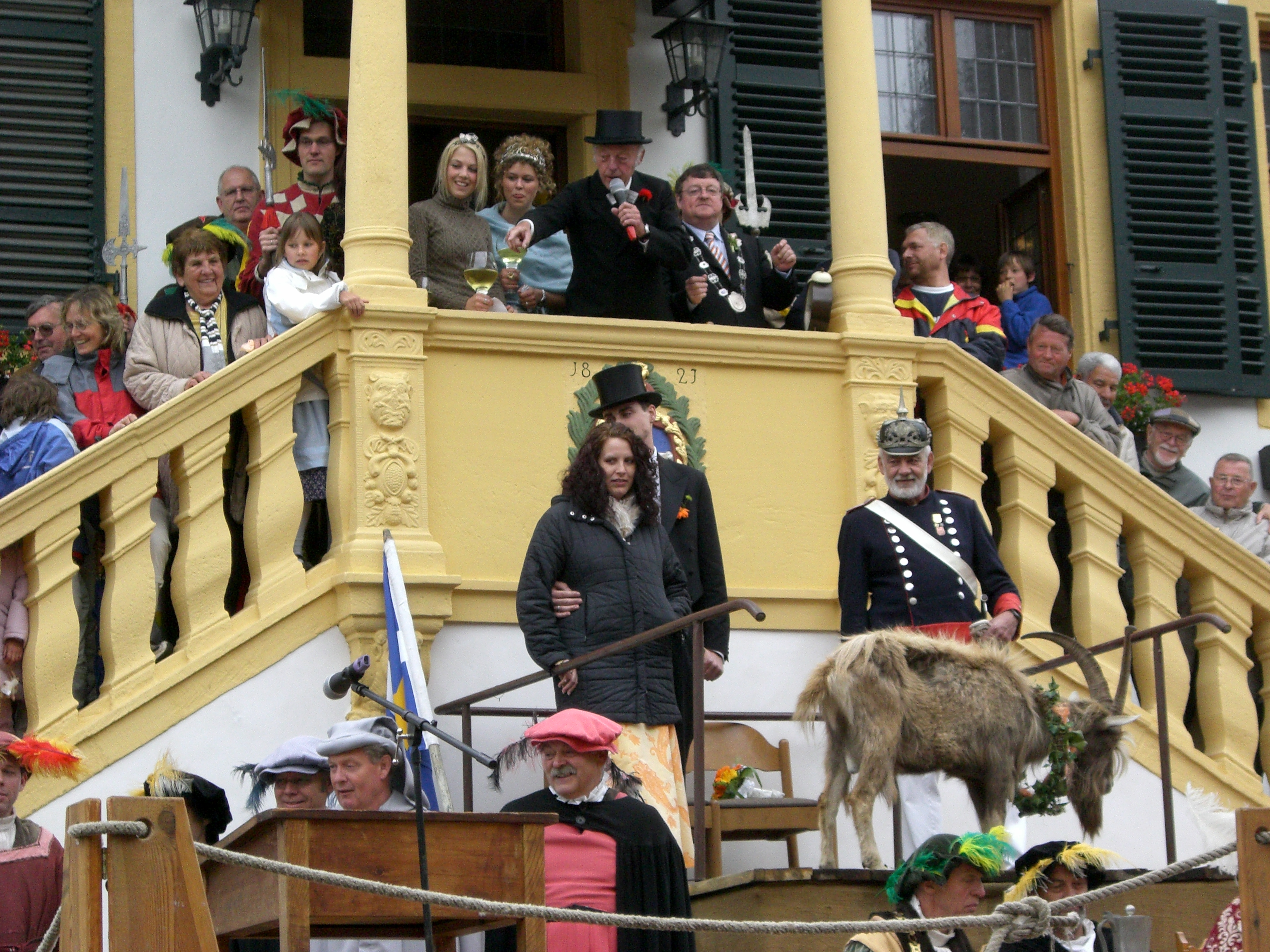 This picture shows the famous "Deidesheimer Geißbockversteigerung", where a billy goat is auctioned Die Geißbockversteigerung 2007 ist im Gange